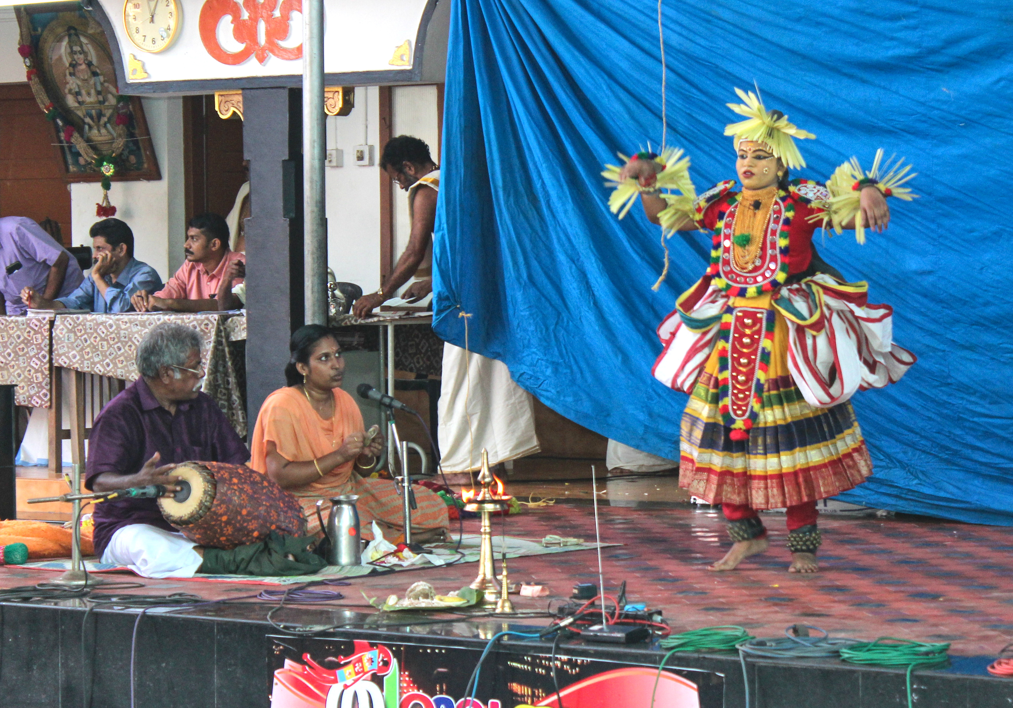 Sheethankan Thullal, performed by Parvathi Menon. Venue: Chirakkadavu Sree Mahadeva Temple. This photo has been taken in the country: India